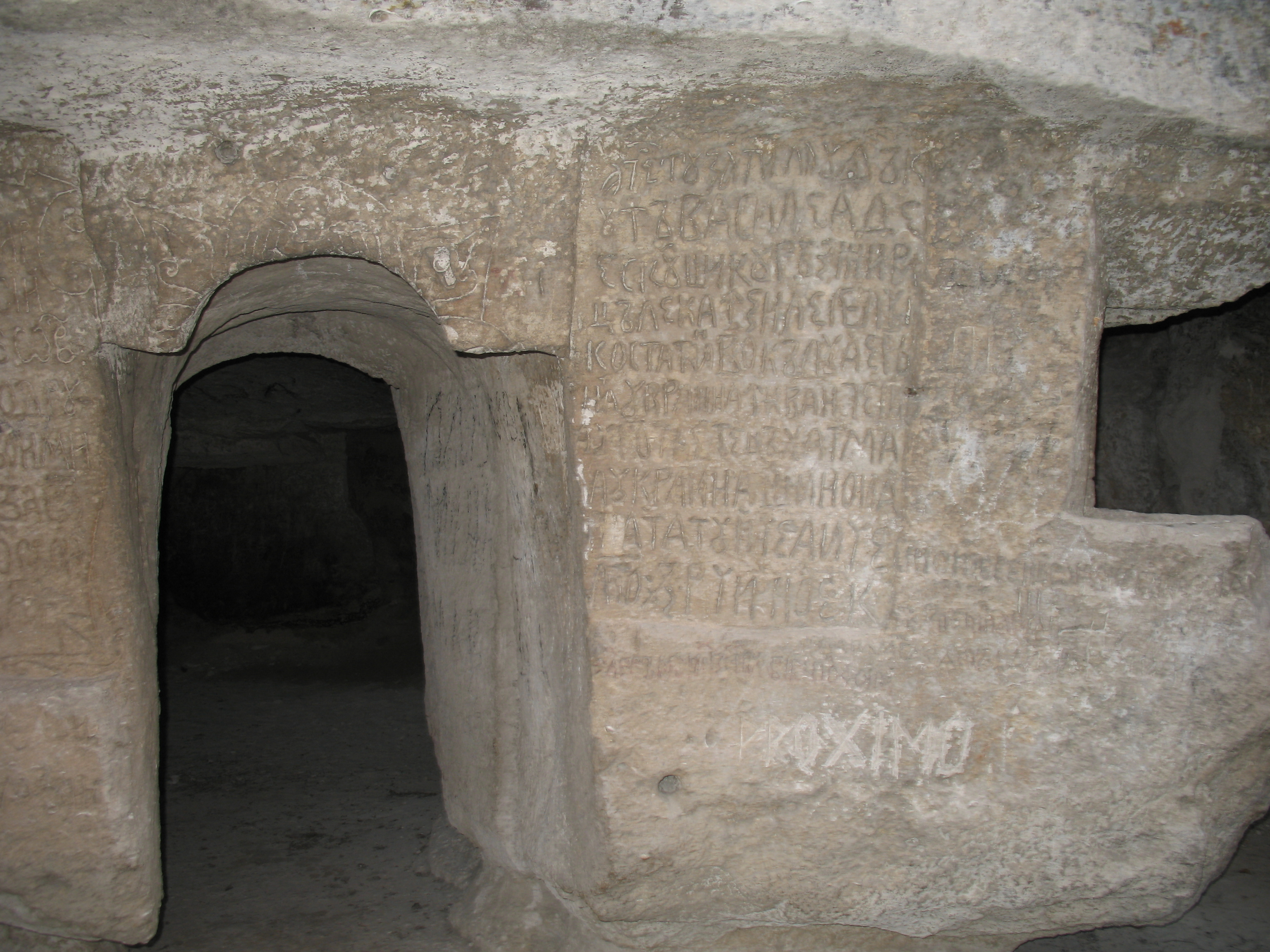 Old Orhei